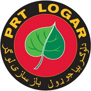 Insignia of PRT Lowgar - free distribution